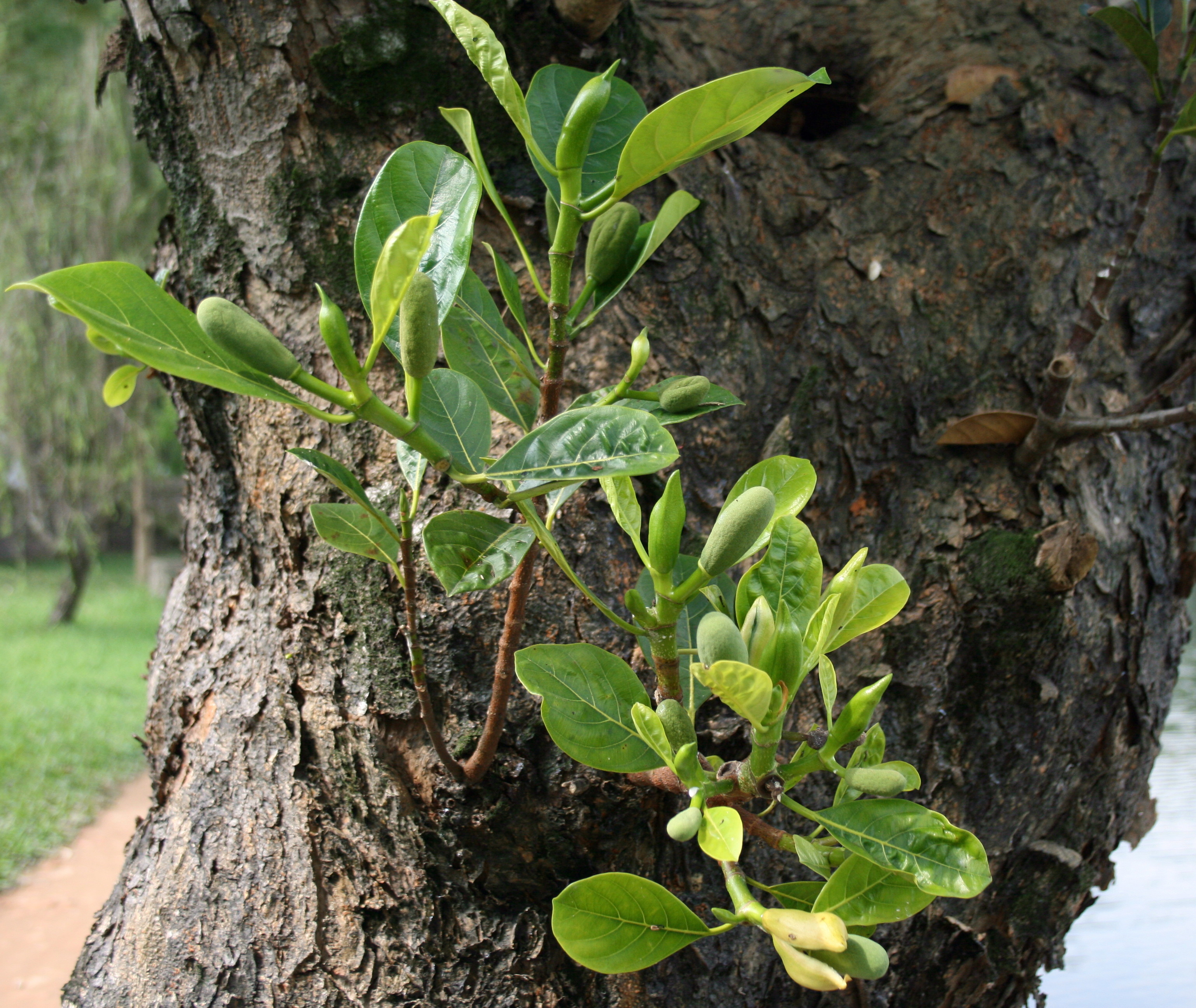 Artocarpus heterophyllus